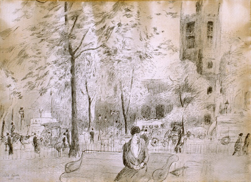 This view of London, formerly in the Istituto Bancario Italiano (IBI) Collection, is from a small series of works in ink and watercolour on paper produced during the artist’s trip to the city in 1929. The slightly off-centre focal point of the composition is the female figure sitting on a bench in the foreground and turning to watch the bustling movement of carriages, cars and pedestrians against a background of tall trees and characteristic buildings. After making an early debut with his brother Tommaso at the Galerie Druet, Paris, in 1909, Cascella reappeared on the international art scene with a show at the Beaux Art Gallery, London, in 1929 and achieved success at the European level the following year with a show at the Galerie Georges Petit in Paris. During his repeated travels outside Italy in the 1920s and 1930s, the artist used watercolour and simple lines drawn in ink to produce numerous views capturing images of major monuments and the streets in the style of sketches or illustrations. His quick and lively drawing harmonises fully with the subject matter and enhances the visual representation of the emotion aroused by actual experience.